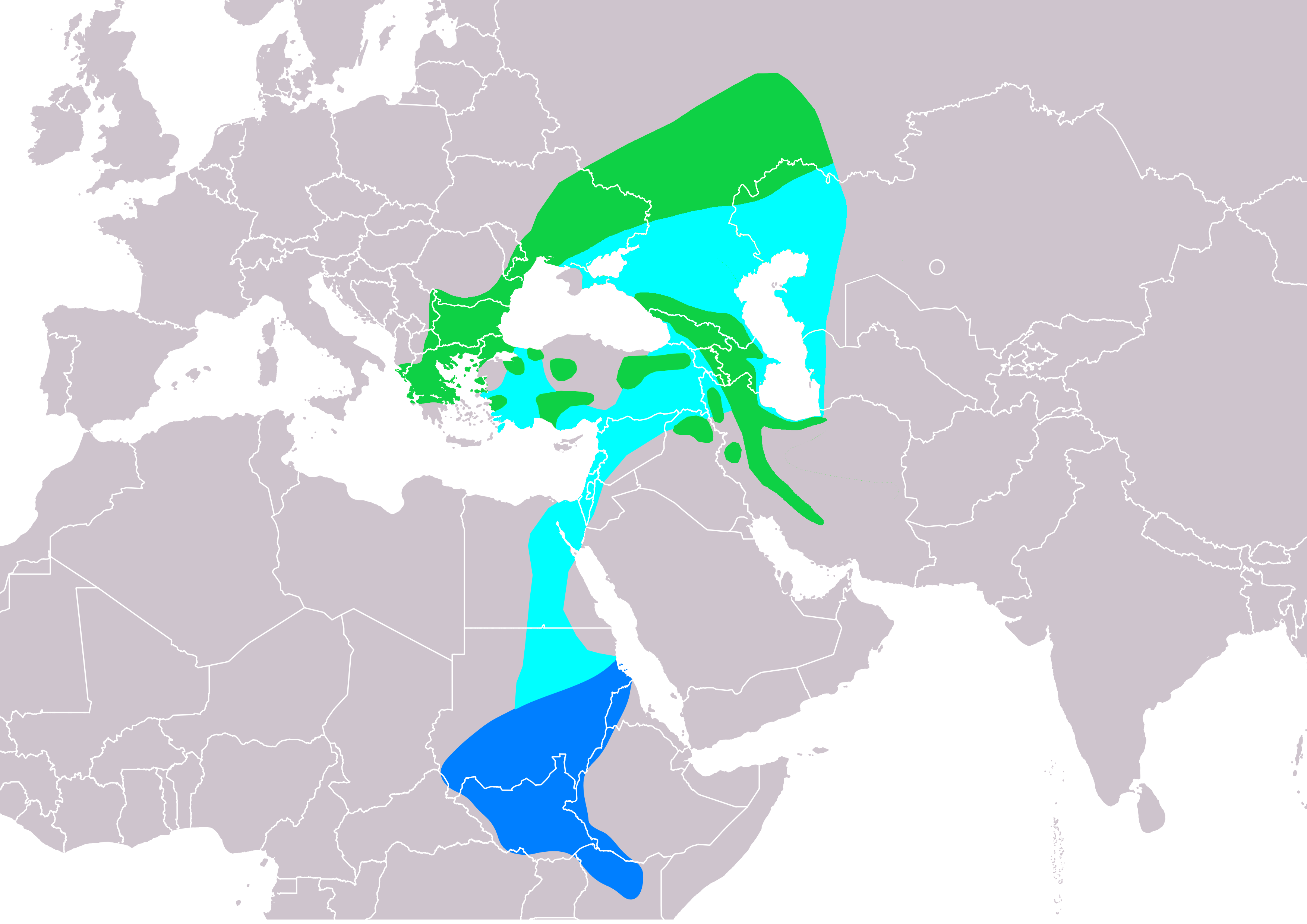 map of levant sparrowhawk (Accipiter brevipes) according to IUCN version 2018.2 , Legend: Extant, breeding (#00FF00), Extant, passage (#00FFFF), Extant, non-breeding (#007FFF)